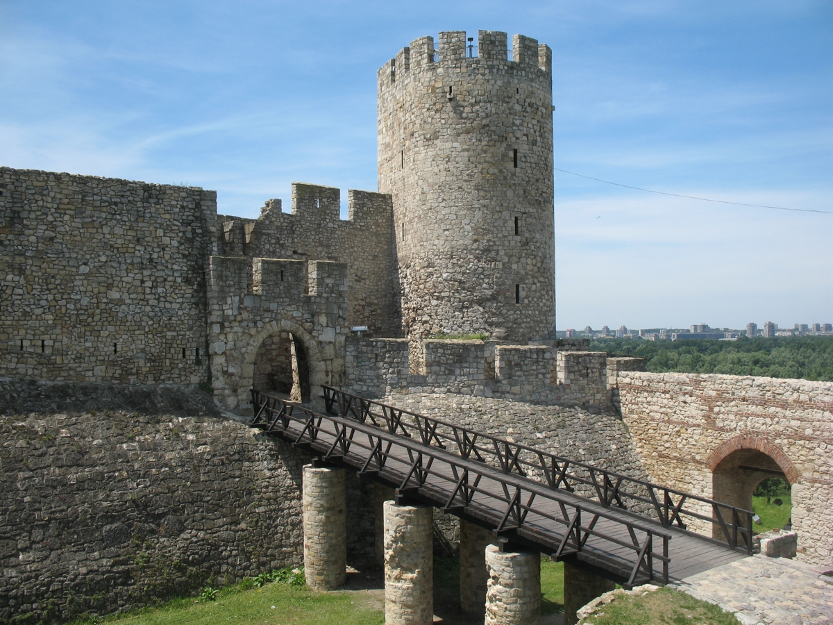 Despots Tower with gate in Belgrade fortress, Serbia.